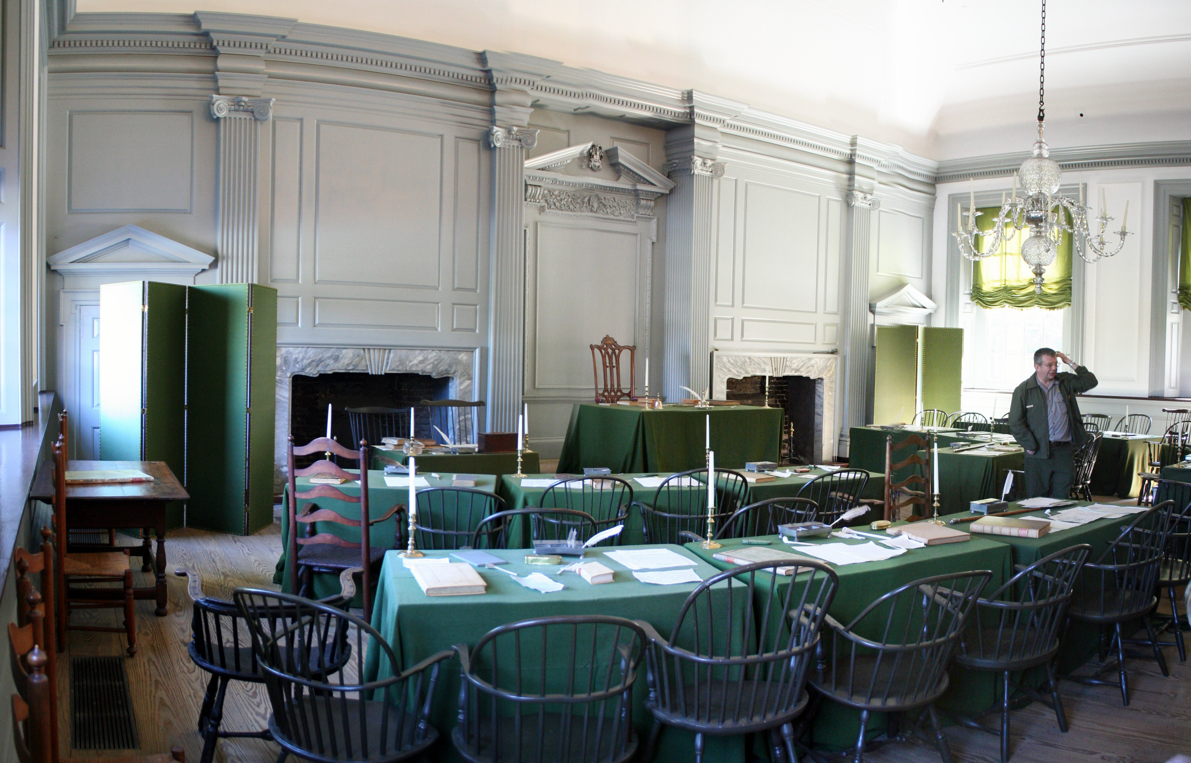 Independence Hall Assembly Room